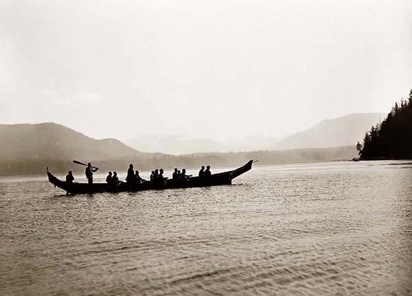 Kwakiutl Indians in a Boat